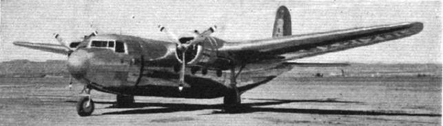 Douglas DC-5